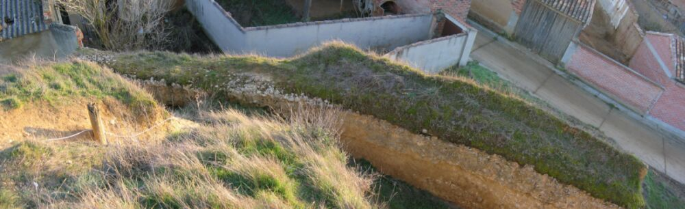 Remains of the Wall of the Castle of Castrillo de Villavega (Palencia, Castile and León).